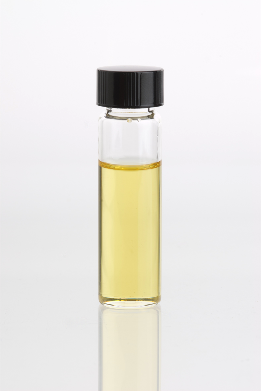 Glass vial containing Geranium Essential Oil